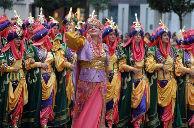 Escuadra femenina de la Comparsa de Moros Bereberes de Villena